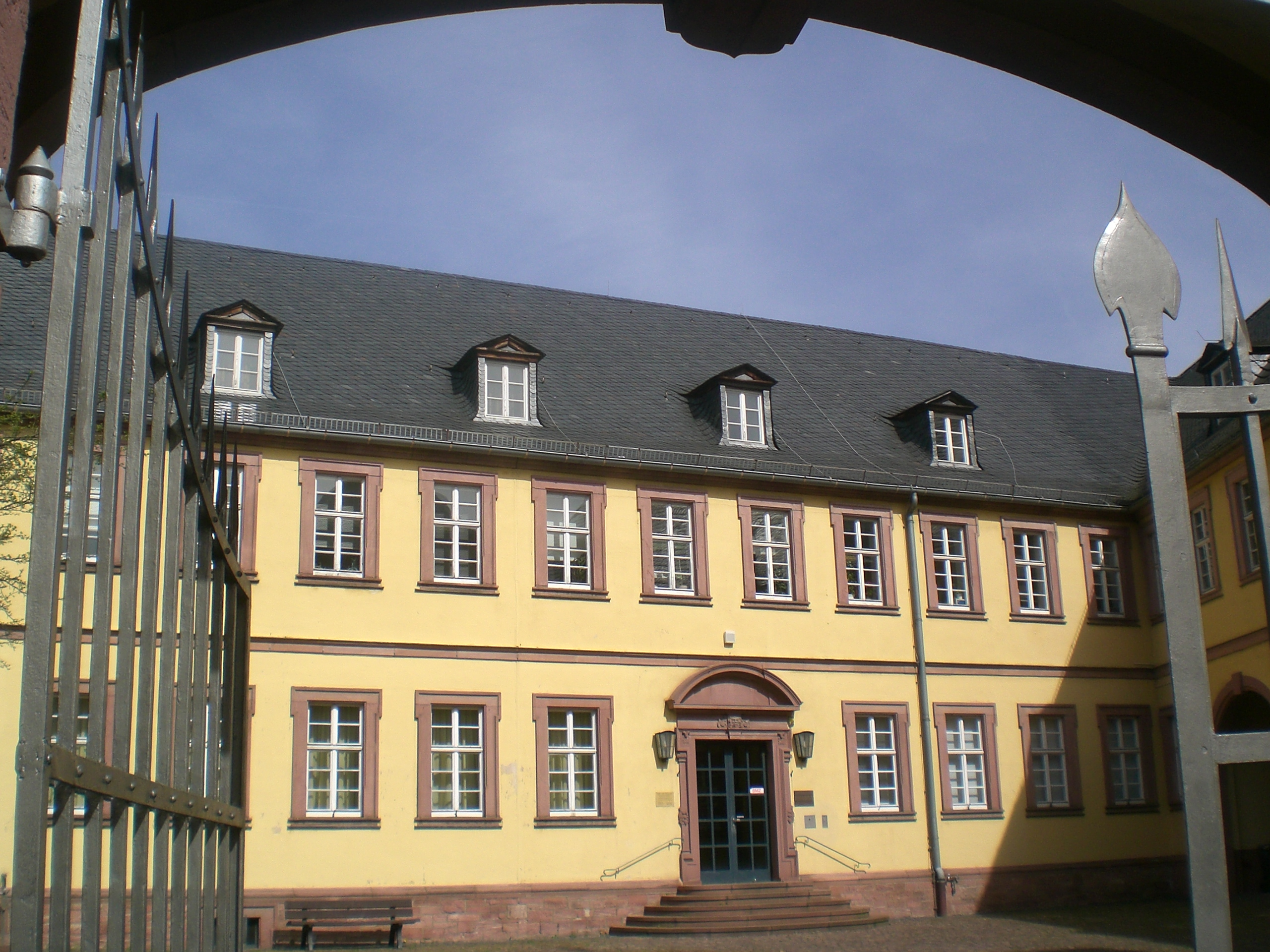 The castle Schönborner Hof is a historical building in Aschaffenburg (Germany).